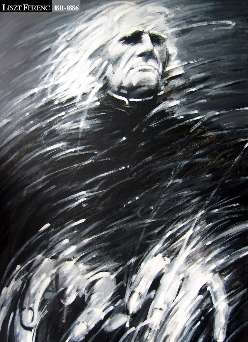 Istvan Kulinyi - Liszt